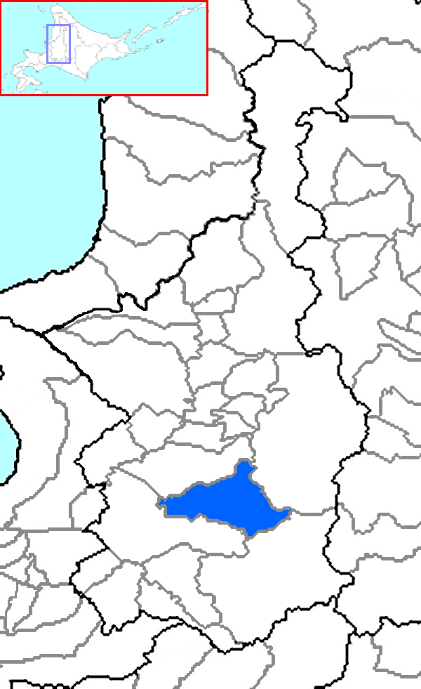 The location of Mikasa in Sorachi Subprefecture, Hokkaido Prefecture, Japan.